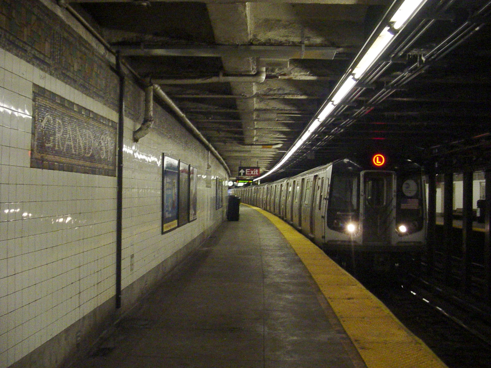 Train arriving at southbound platform of Grand Street (BMT Canarsie Line) station.